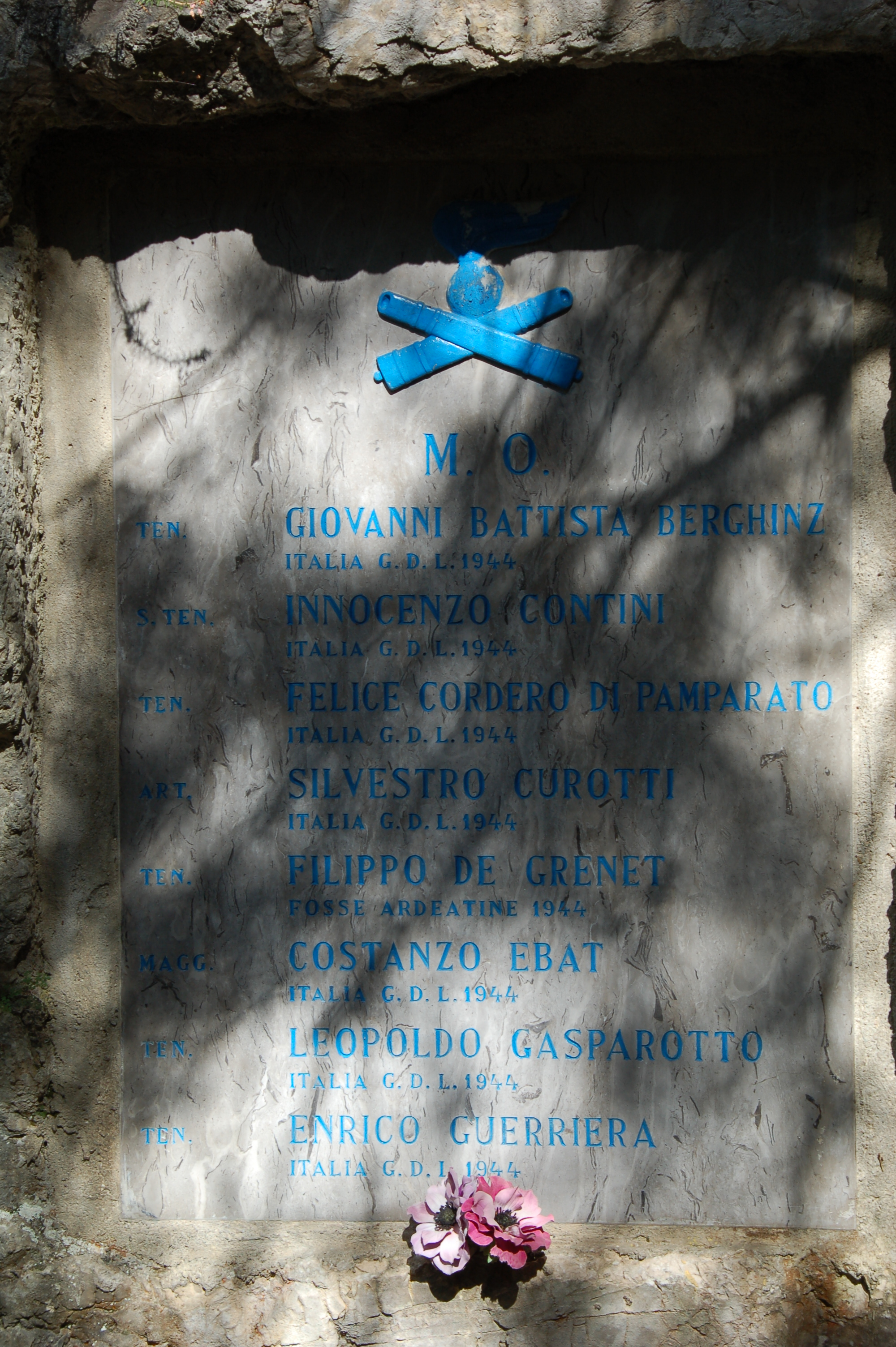 more details in italian wikisource [1]